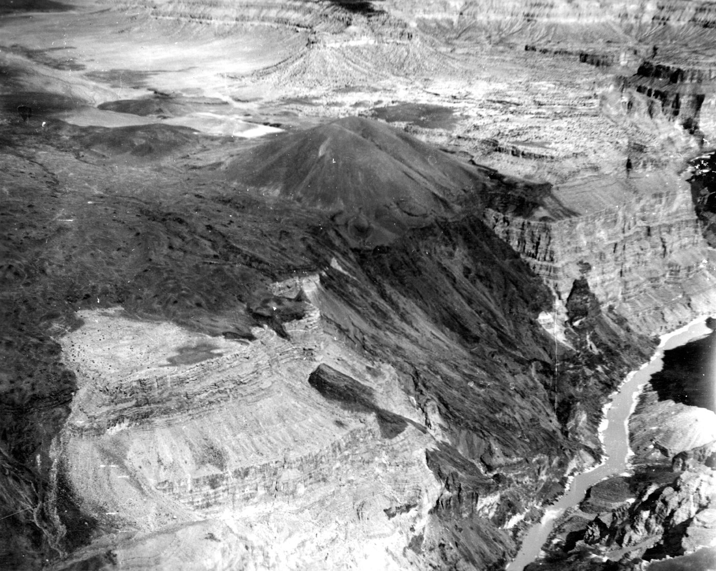 USGS image by Balsley, J.R., taken in 1950. Obtained from